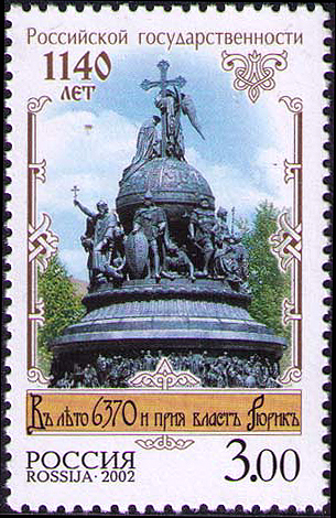 Postage stamp of Russia, 1140th Anniversary of Russian statehood. 3 roubles, 2002